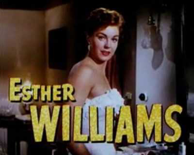 Cropped screenshot of Esther Williams from the trailer for the film Dangerous When Wet